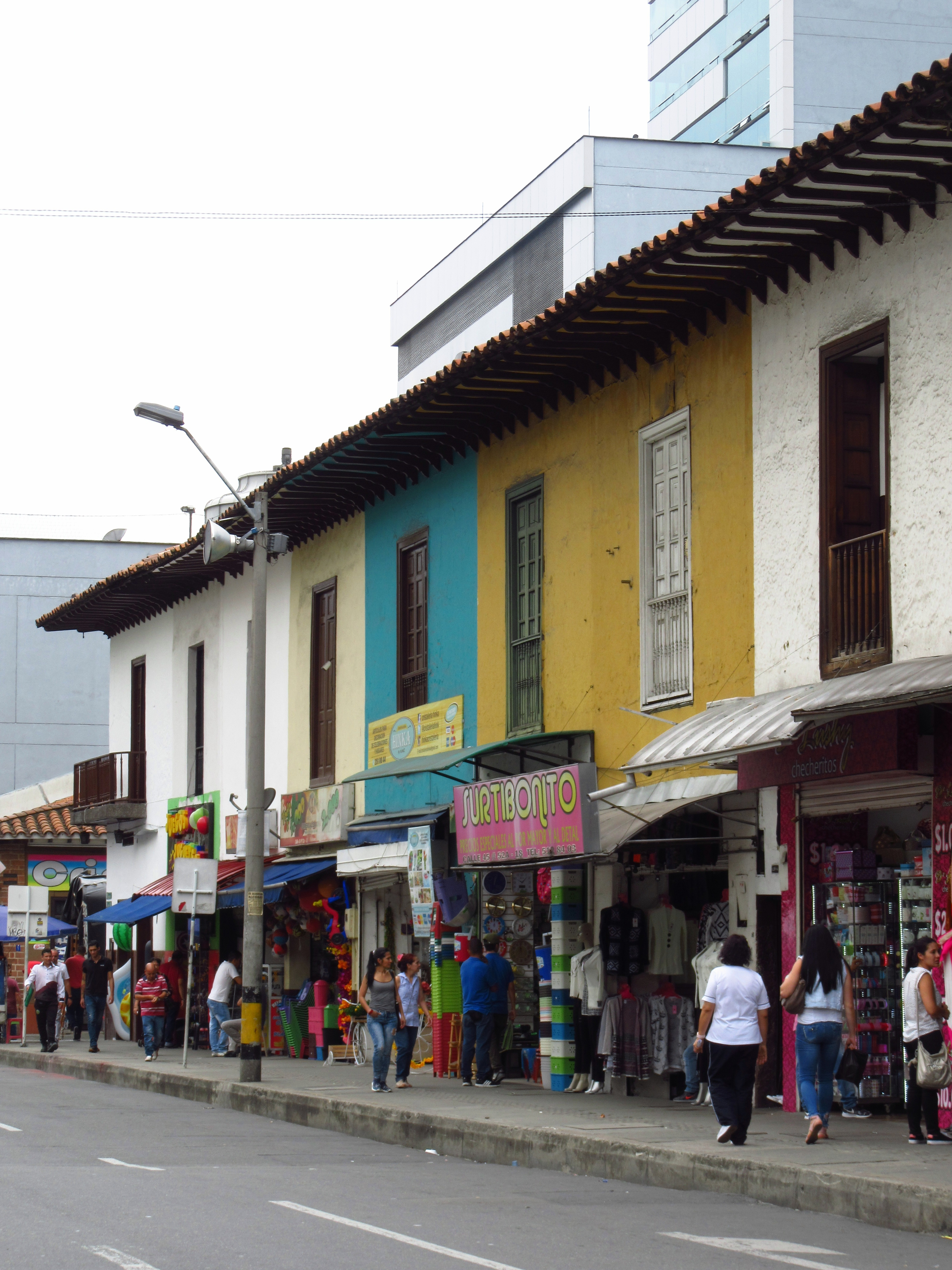 Medellín